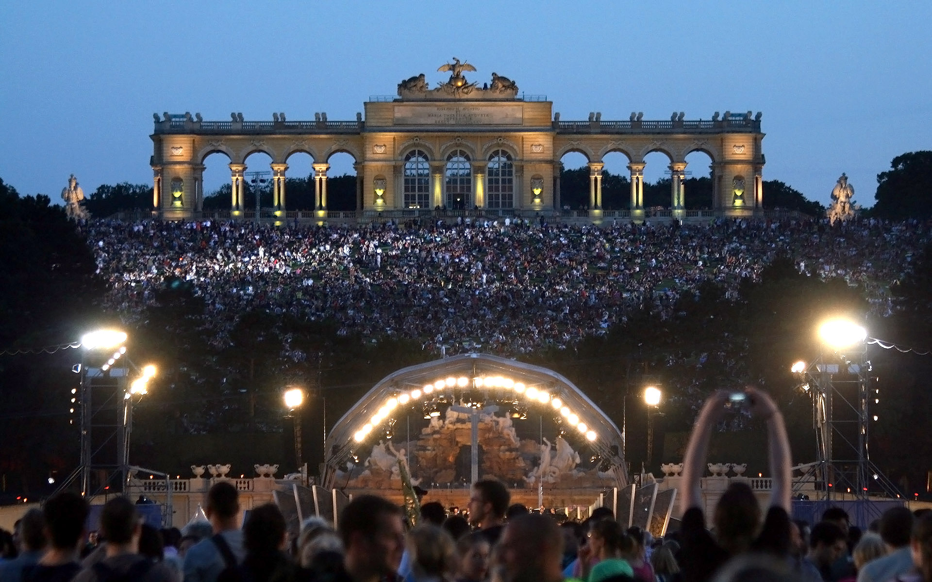 Schönbrunn Palace and Gardens, Vienna, Austria: Summer Night Concert of the Vienna Philharmonic Orchestra.